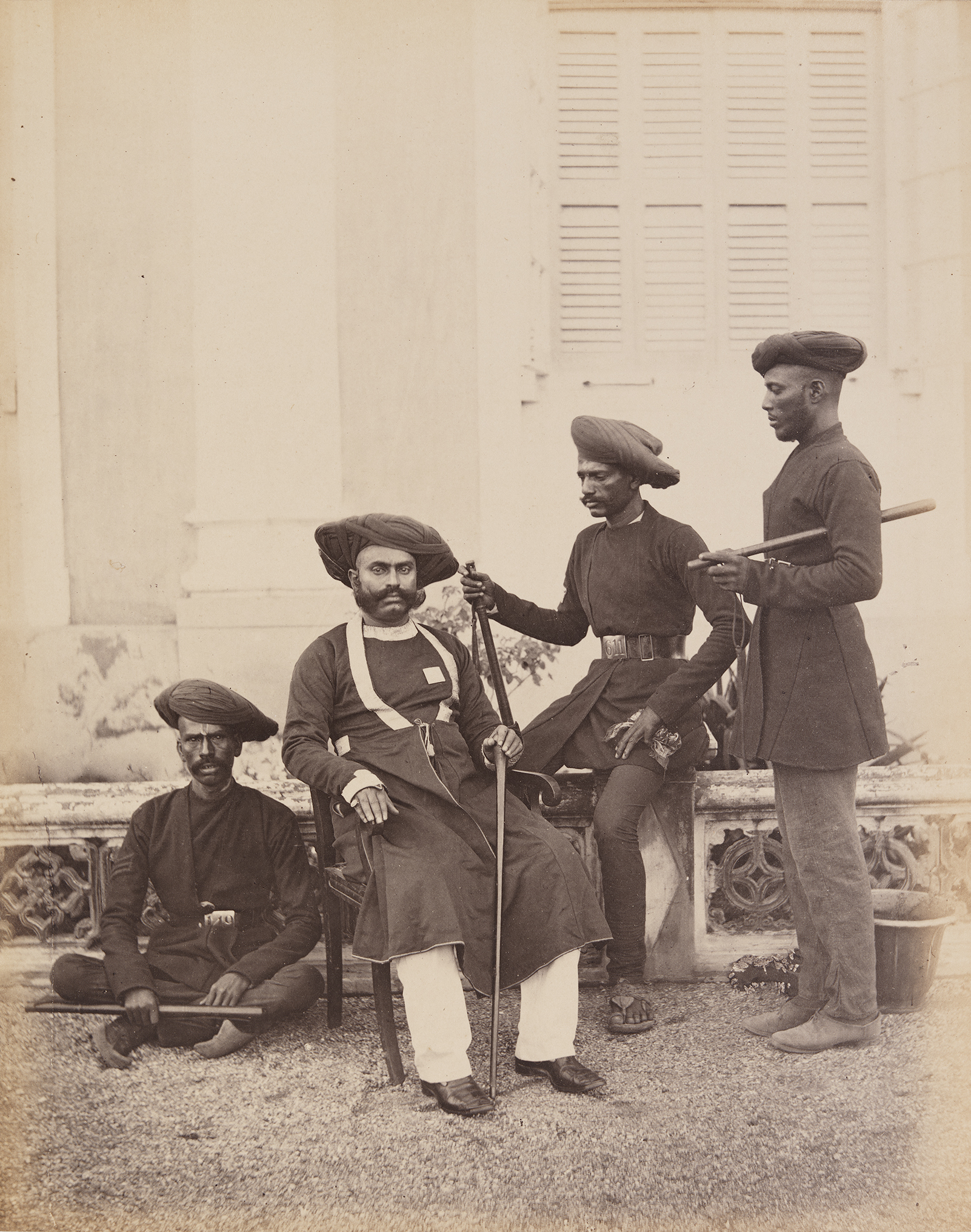 Title: Bombay Police Creator: Johnson, William Date: ca. 1855-1862 Part Of: Photographs of Western India Series: Photographs of Western India. Volume I. Costumes and Characters. Place: India Physical Description: 1 photographic print: albumen; 26 x 20 cm on 42 x 35 cm mount File: vault_ag2002_1407x_1_055_bombay_opt.jpg Rights: Please cite Southern Methodist University, Central University Libraries, DeGolyer Library when using this image file. A high-quality version of this file may be obtained for a fee by contacting . For more information, see: View Europe, India, and Asia: Photographs, Manuscripts, and Imprints